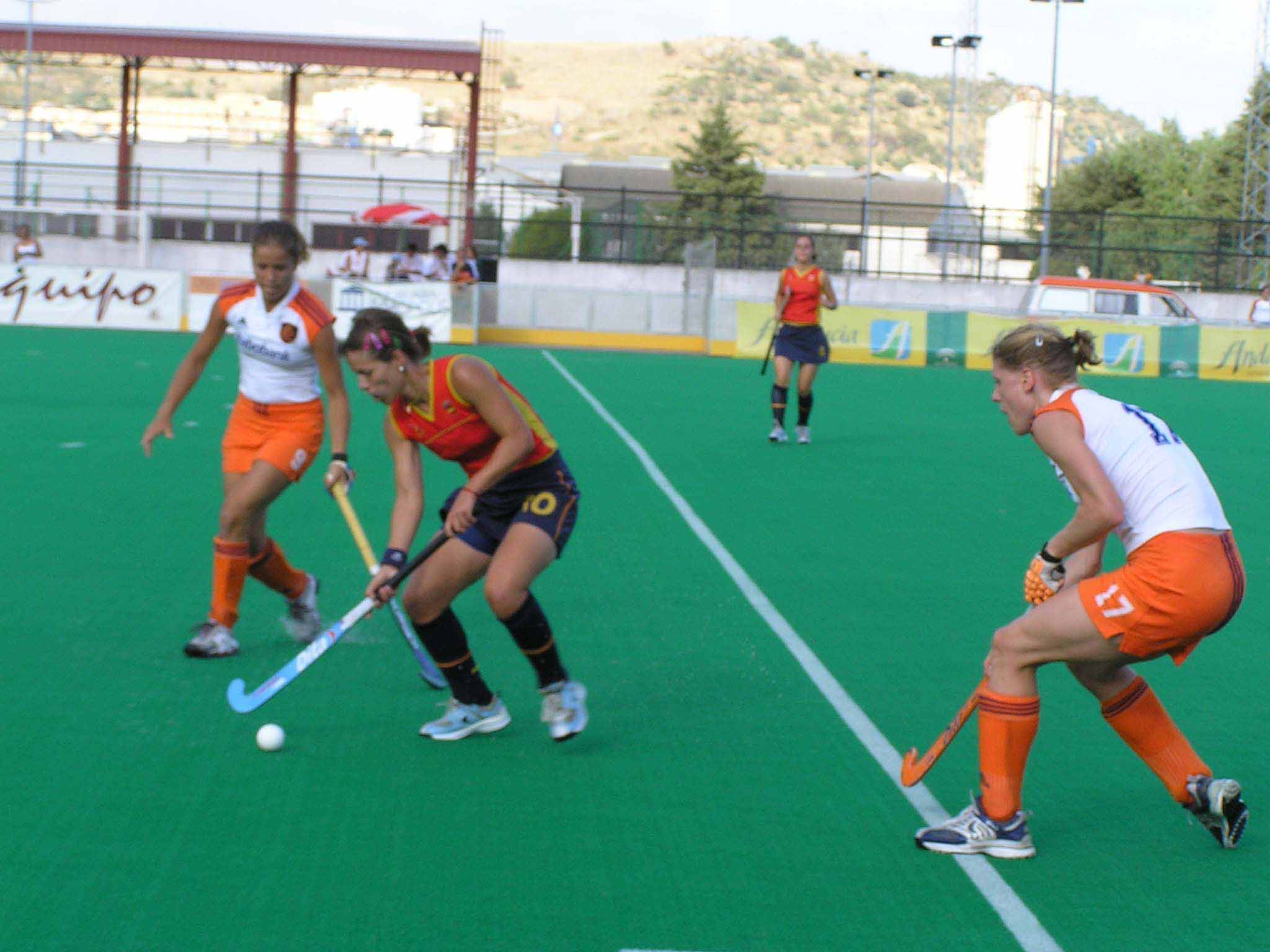 During a women's hockey game, between Spain and Holland.